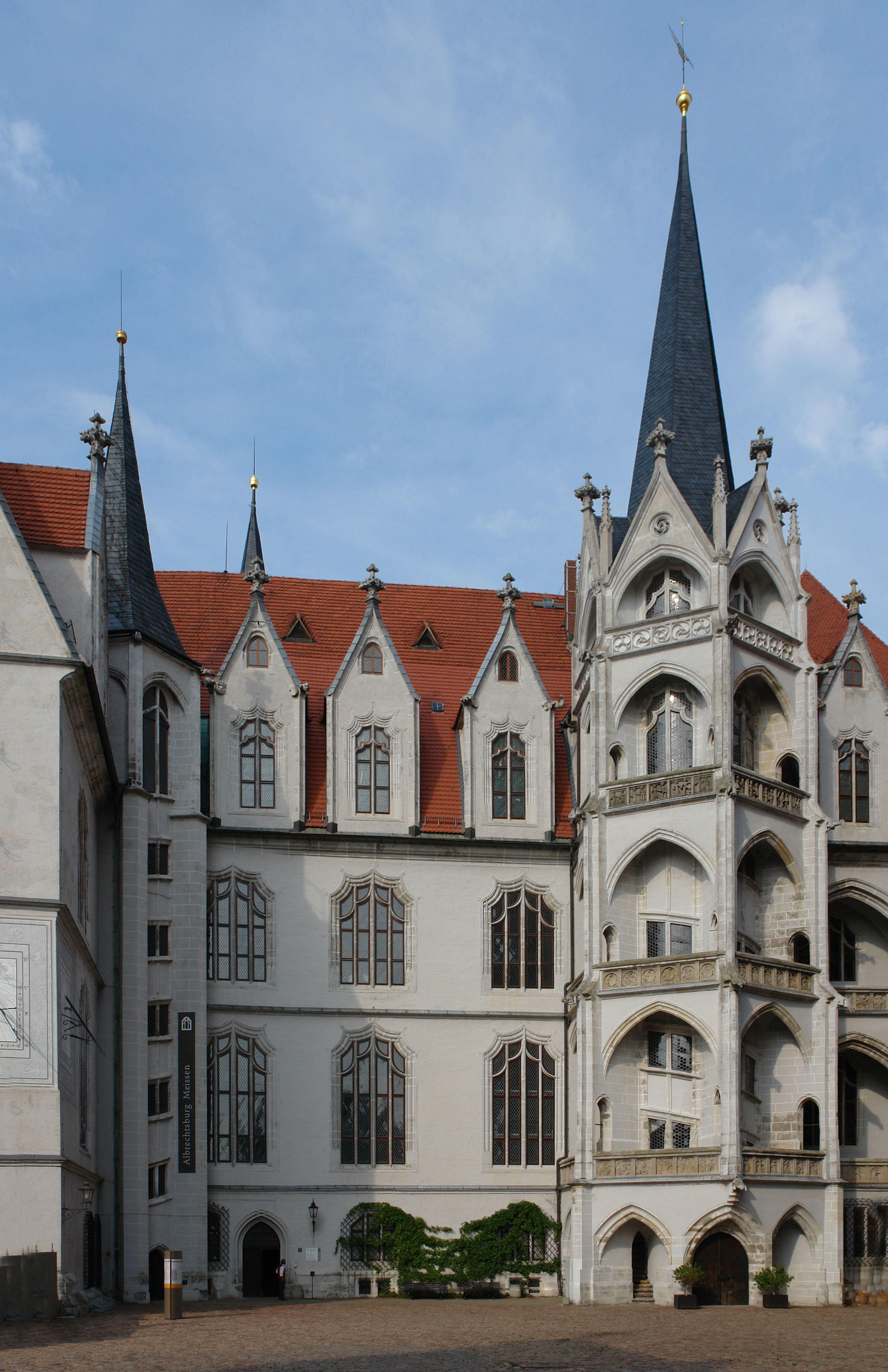 Meissen, Albrechtsburg. Western façade facing the inner courtyard and spiral staircase tower.